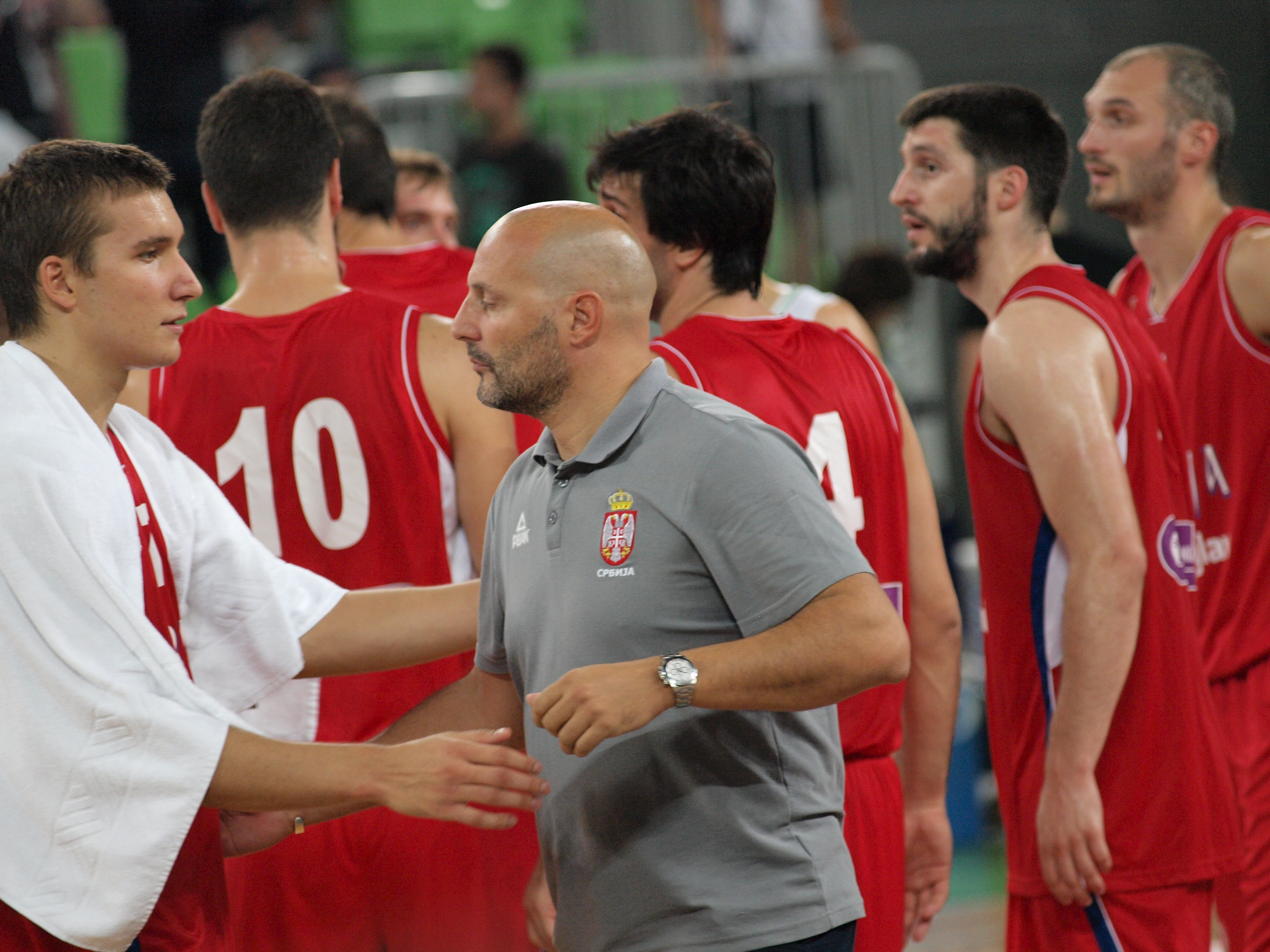 Serbia men's national basketball team with coach Aleksandar Đorđević on friendly game vs Slovenia. August 2015, Ljubljana, Slovenia.